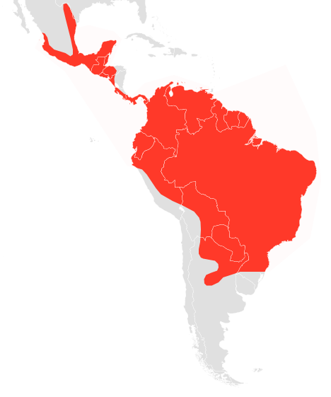 Distribution of Molossus rufus